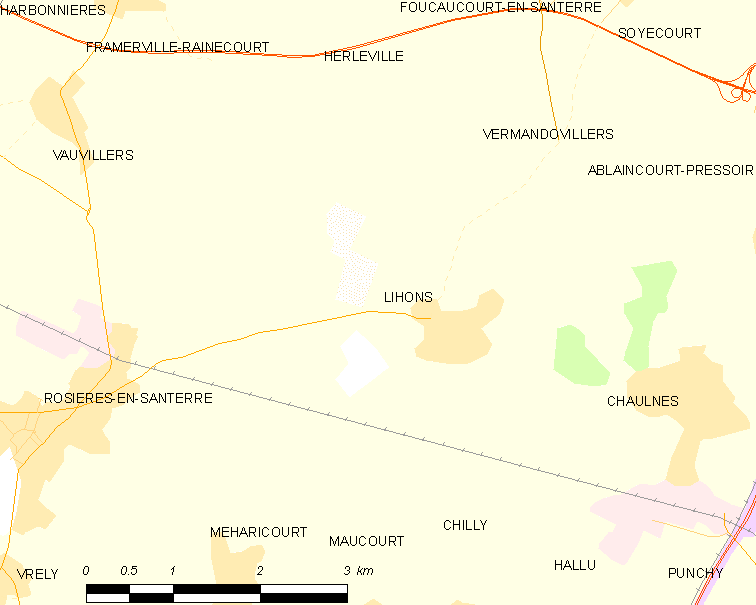 Map of French municipality Lihons